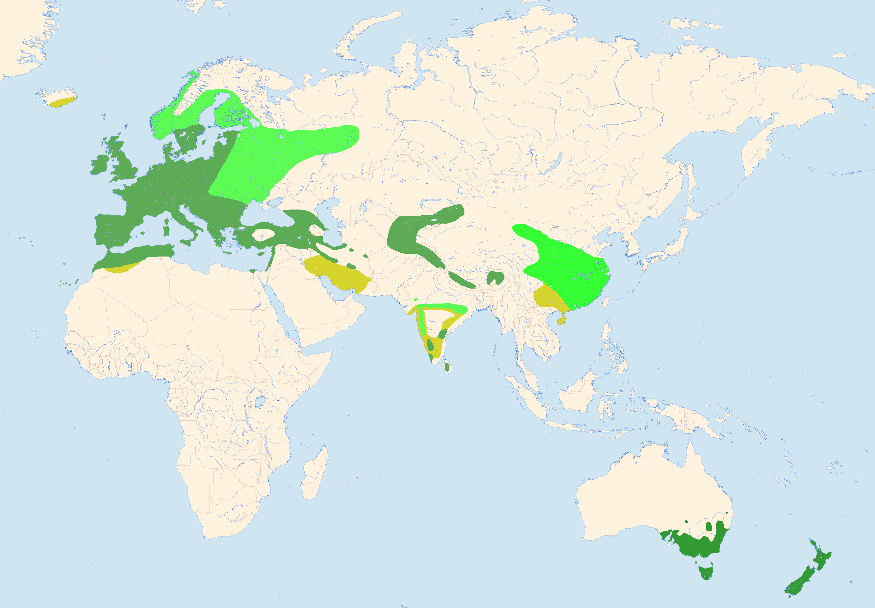 Combined distribution of Common Blackbird Turdus merula, Tibetan Blackbird Turdus maximus, Indian Blackbird Turdus simillimus, and Chinese Blackbird Turdus mandarinus. Resident range: dark green; summering range: light green; wintering range: yellow